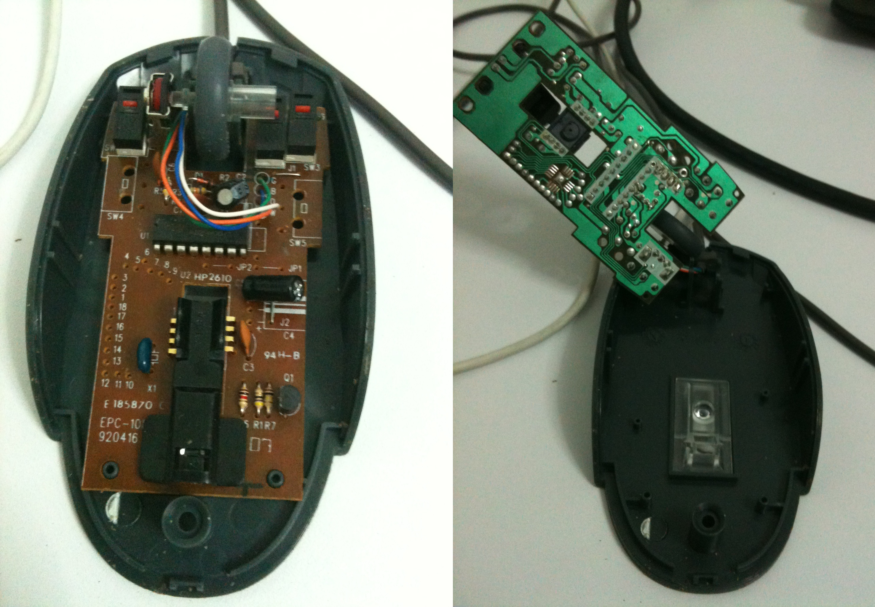 Mouse printed circuit board SOLDER side